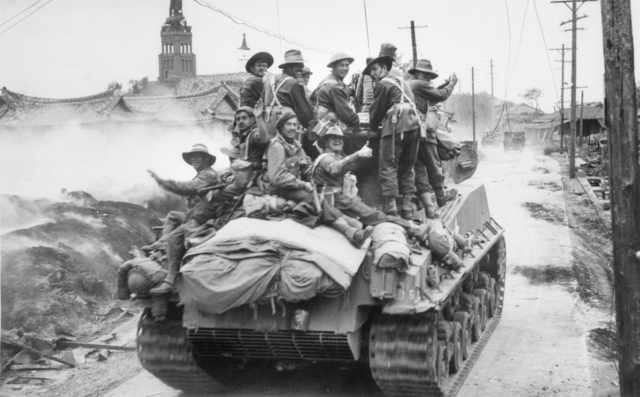 Australian soldiers from the 3rd Battalion, Royal Australian Regiment ride on an American M4A3E8 Sherman tank at Sariwon